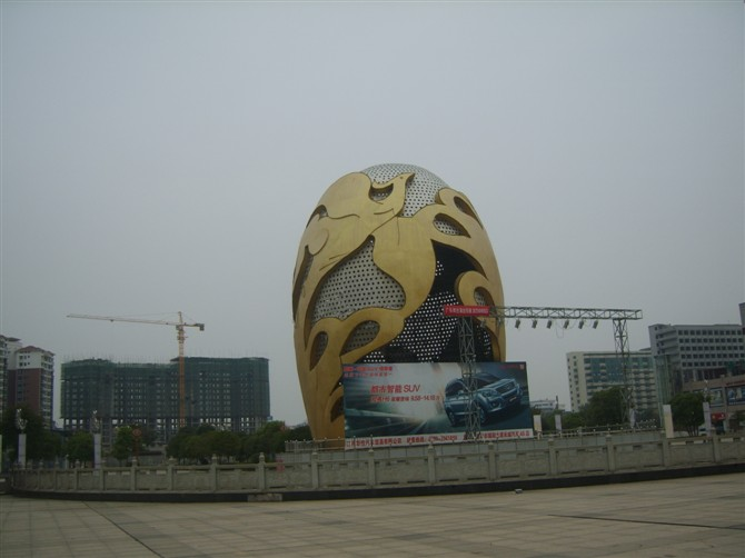 It is the landmark of Gao'an.